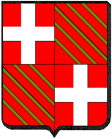 The coat arms of Frabrizzio del Carretto, Grand master of the Kinghts of Malta